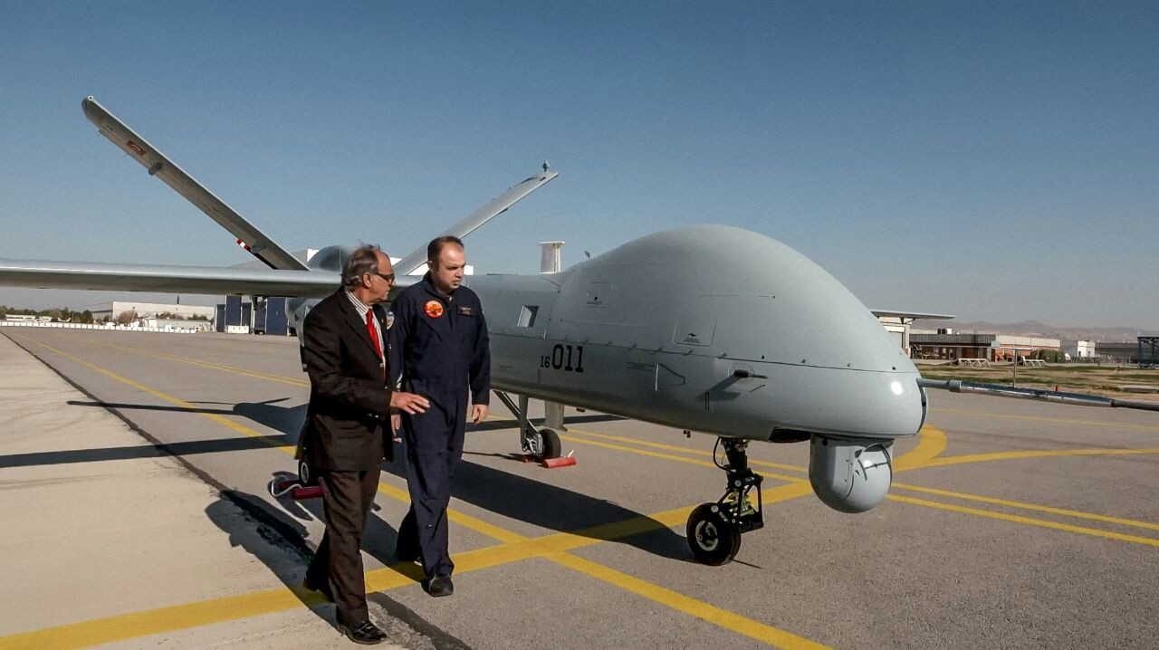 ANKA-S MALE